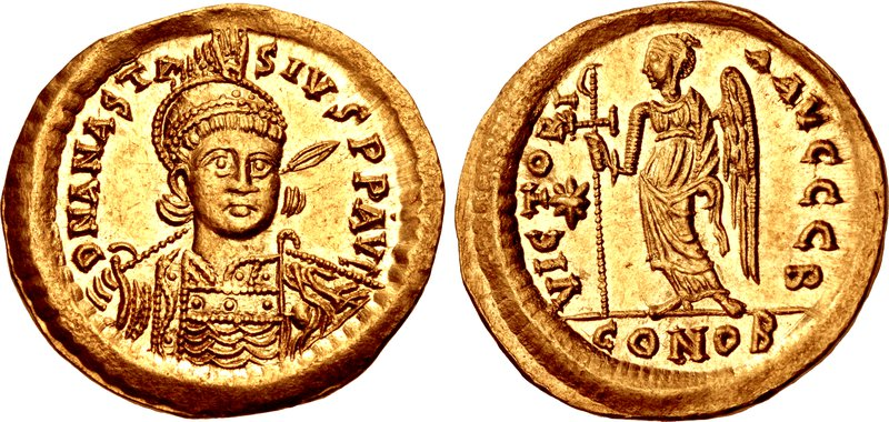 Anastasius I. 491-518. AV Solidus (21mm, 4.43 g, 6h). Constantinople mint, 2nd officina. Struck circa 507-518. D N ANASTA–SIVS P P AVG, helmeted and cuirassed bust facing slightly right, holding spear over shoulder in right hand, shield over left shoulder / VICTORI–A AVGGG, Victory standing left, holding long staff surmounted by reversed staurogram in right hand; star in left field; B//CONOB. DOC 7b; MIBE 7; SB 5. Superb EF. From the Goldman Collection. Ex Nomos 5 (25 October 2011), lot 259.